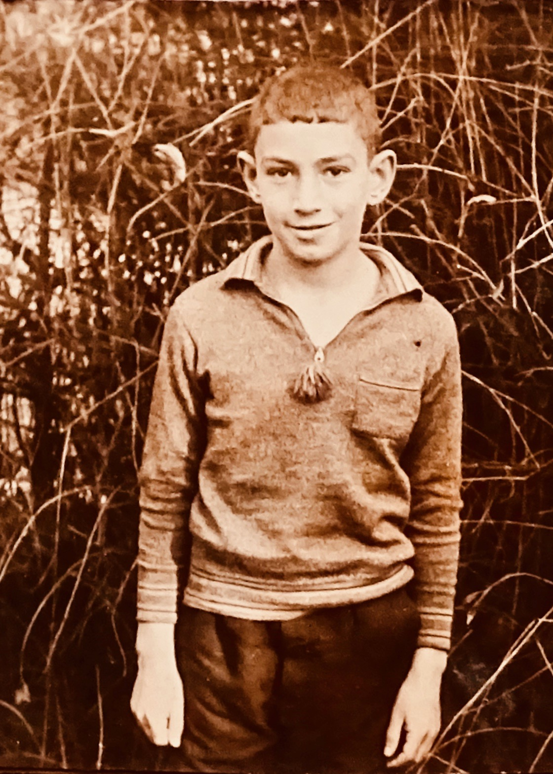 Klaus Bamberger (1920–2008) as a student of progressive boarding school Schule am Meer on the island Juist in East Frisia, Prussia.